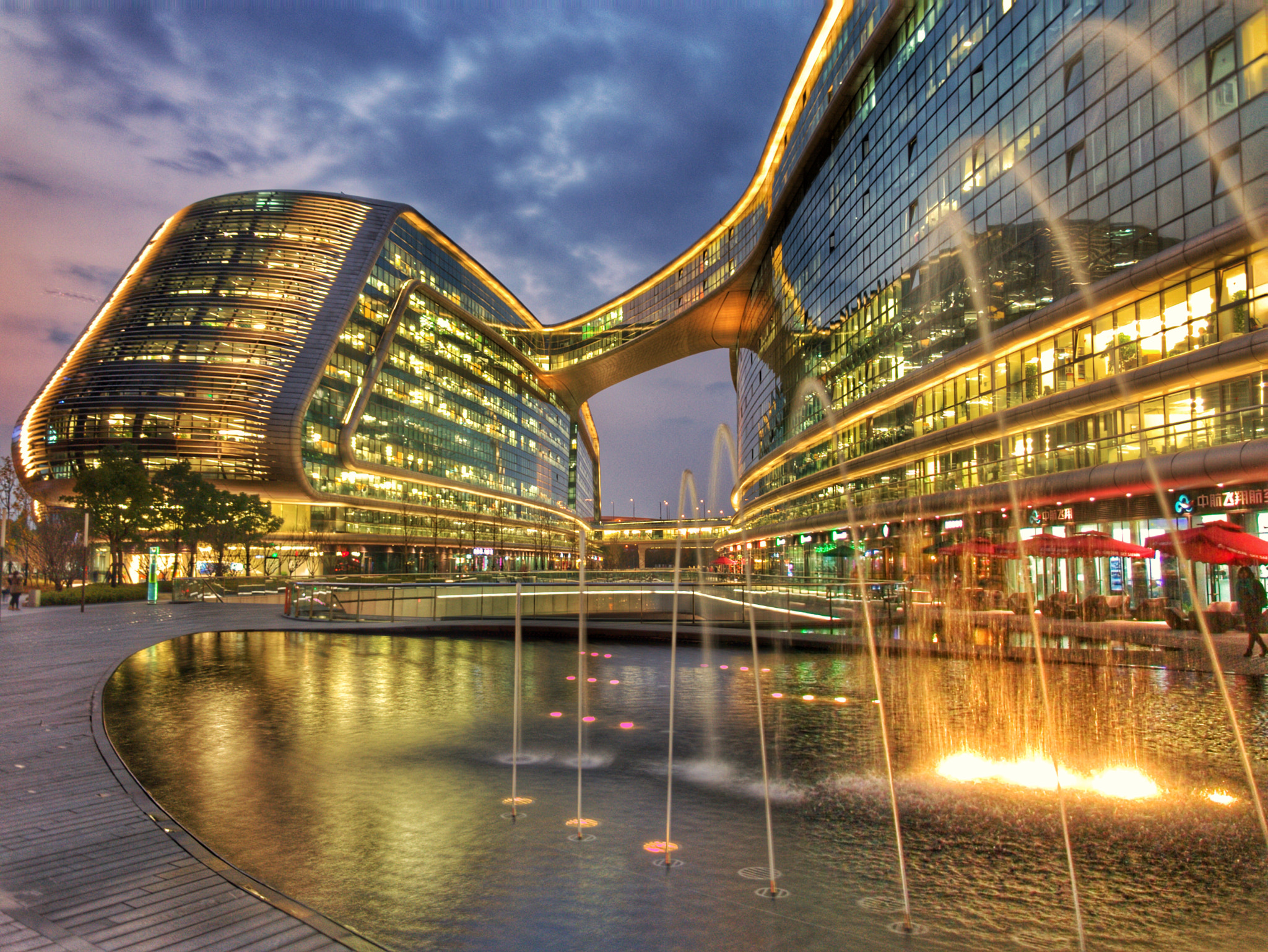 Sky SOHO, Linkong Economic Zone, Hongqiao, Shanghai500px provided description: Soho Hongqiao Building [#city ,#night ,#lights ,#building ,#company]